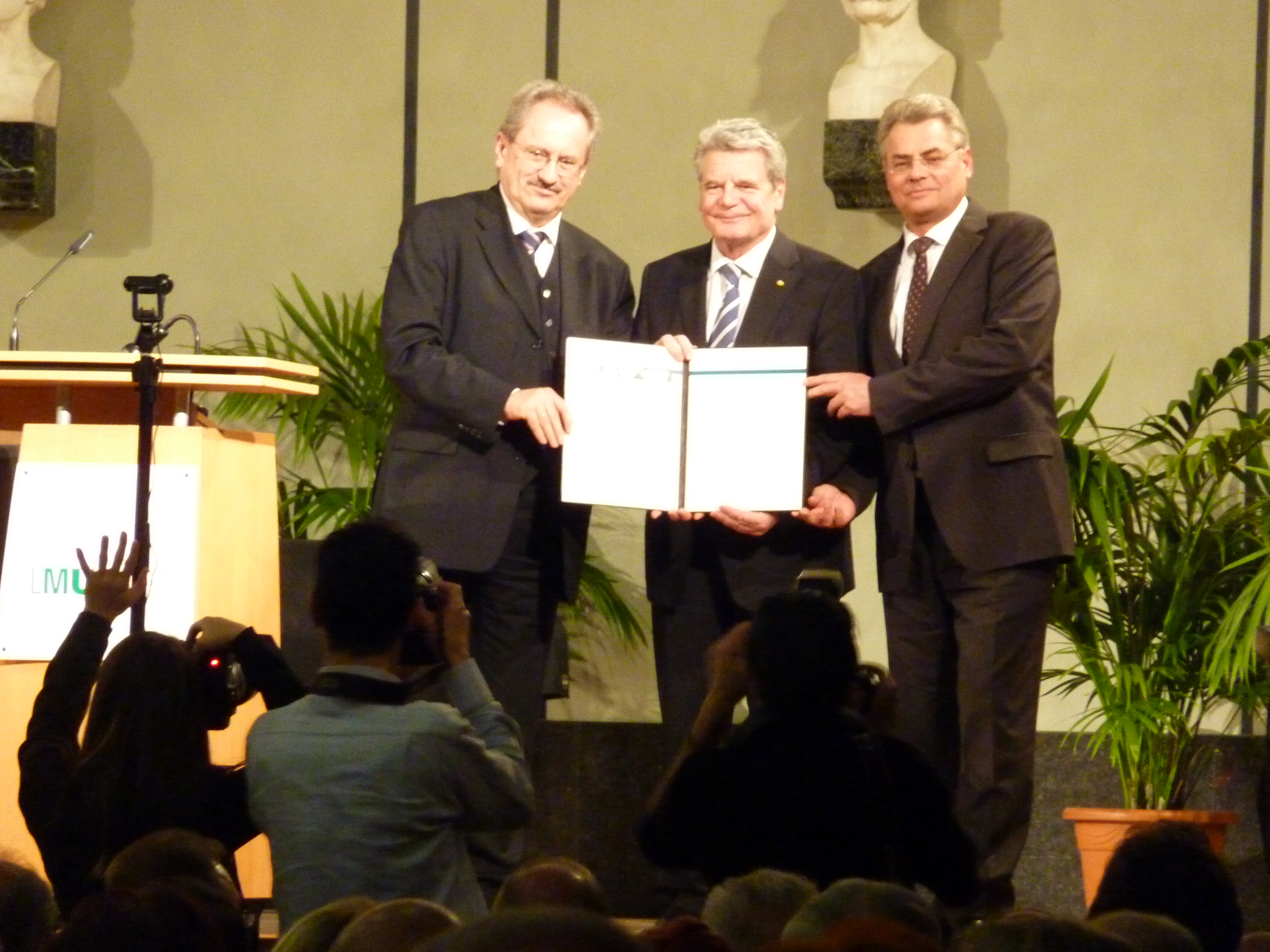 Geschwister-Scholl-Preis 2010 for Joachim Gauck / from left to right: Christian Ude (Lord Mayor of Munich), Joachim Gauck, Wolf Dieter Eggert, Chairman of the Börsenverein des Deutschen Buchhandels - Landesverband Bayern e.V / in the "Große Aula" of the Ludwig-Maximilian-University Munich